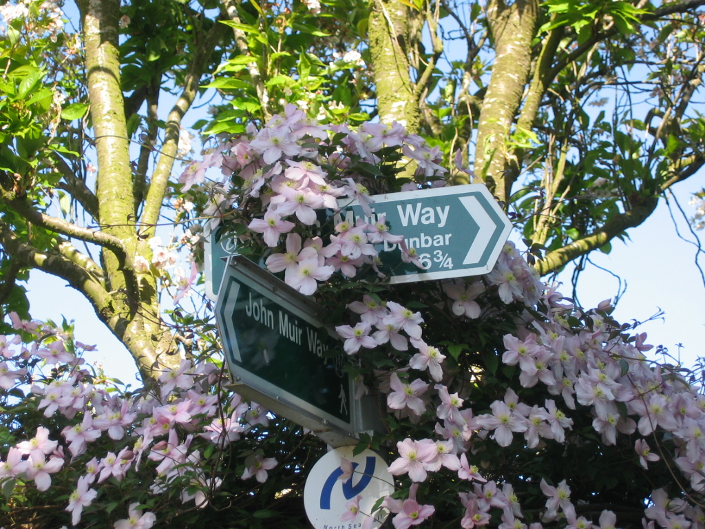 Long-distance footpaths: North Sea Trail logo and John Muir Way fingerpost